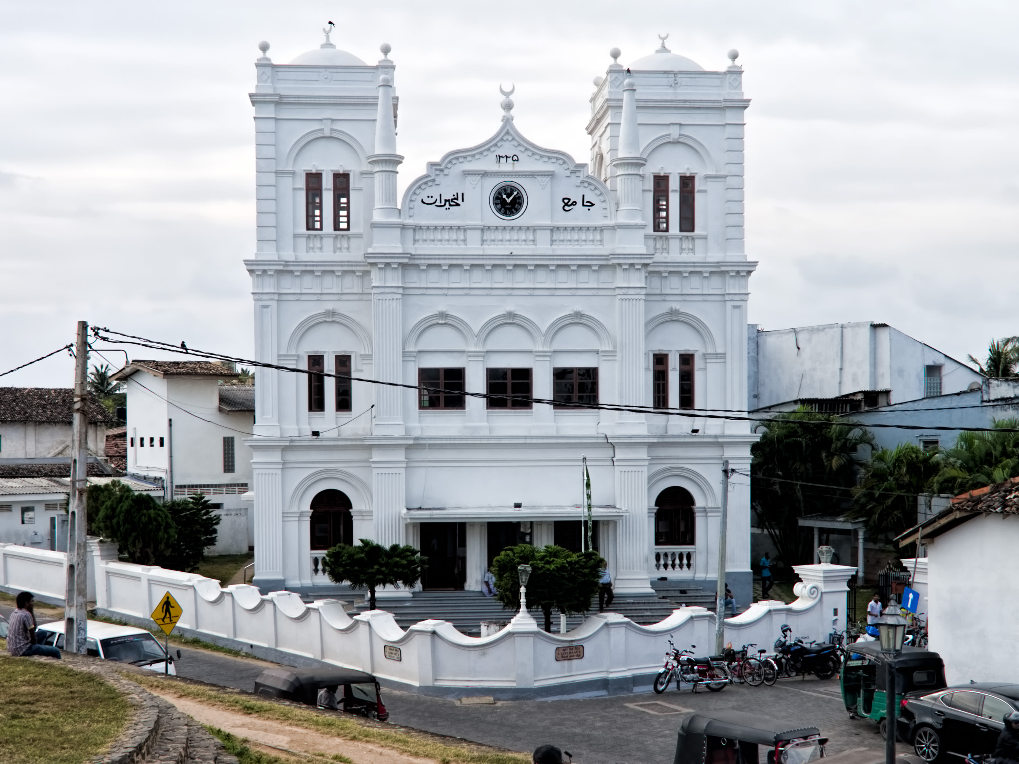 The Meeran Mosque dates from 1904 and was built in the style of a Portuguese Baroque cathedral. About 7% of the population of Sri Lanka is Muslim, mostly descendants of Arab traders. Galle (pronounced ‘gawl’ in English) owes its prominence to the arrival of Europeans starting with a Portuguese fleet blown off course in 1505 on its way to the Maldives. The Portuguese built a fort beginning in 1589 that was replaced following the Dutch takeover in 1640. Galle became the main port for Sri Lanka for 200 years. By the time the British gained control in 1796, maritime trade was already starting to shift to Colombo. Sri Lanka became independent in 1948. The solid walls of the Fort coupled with the Dutch predilection for good drainage limited the damage inflicted on Galle’s old quarter by the 2004 tsunami. The Old Town of Galle and its Fortifications became a UNESCO World Heritage Site in 1988. On Google Earth: Meeran Mosque 6° 1'28.62"N, 80°13'7.48"E